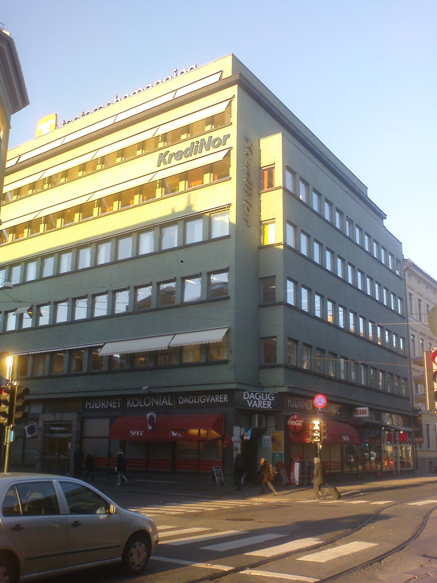 Prinsens gate 2 in Oslo, Norway. Rewarded the Houens fonds diplom in 1933.